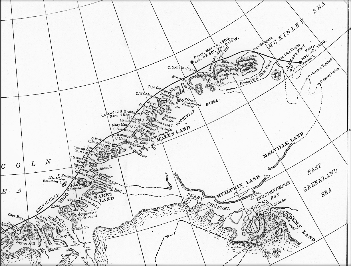 Section of Robert Peary's 1900 explorations map "Polar Regions" published in 1903